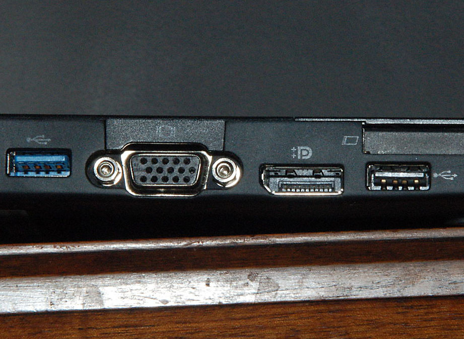 The left-hand-side connectors on a Lenovo X220